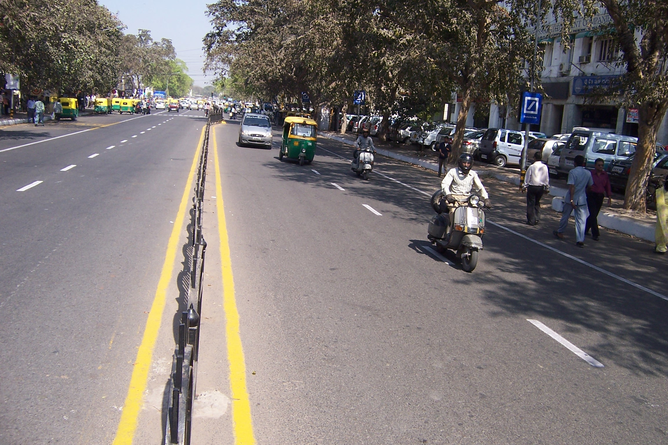 The view from crossing Janpath on foot.